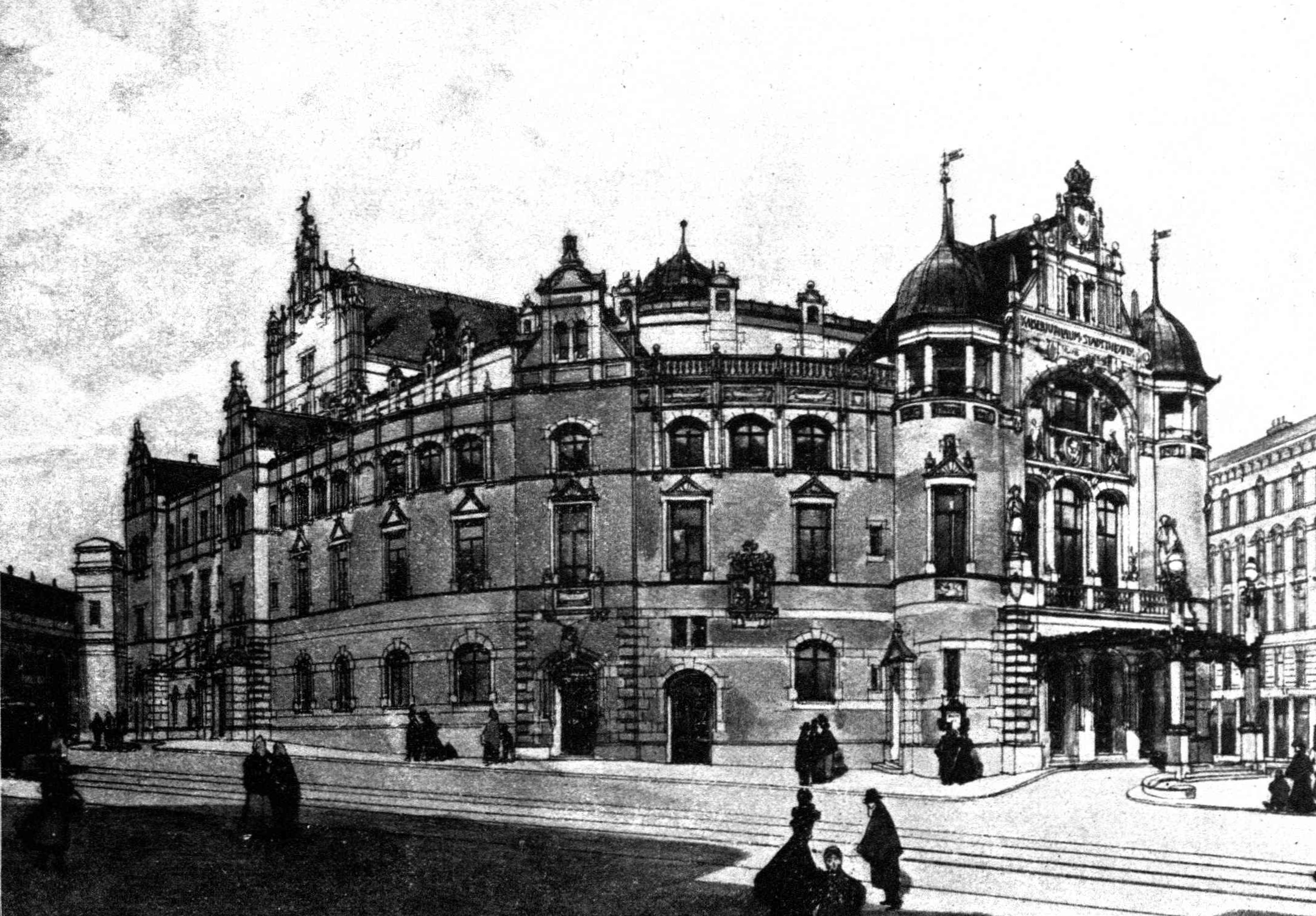 Kaiser-Jubiläums-Stadttheater, Vienna 1898 (today Vienna Volksoper)